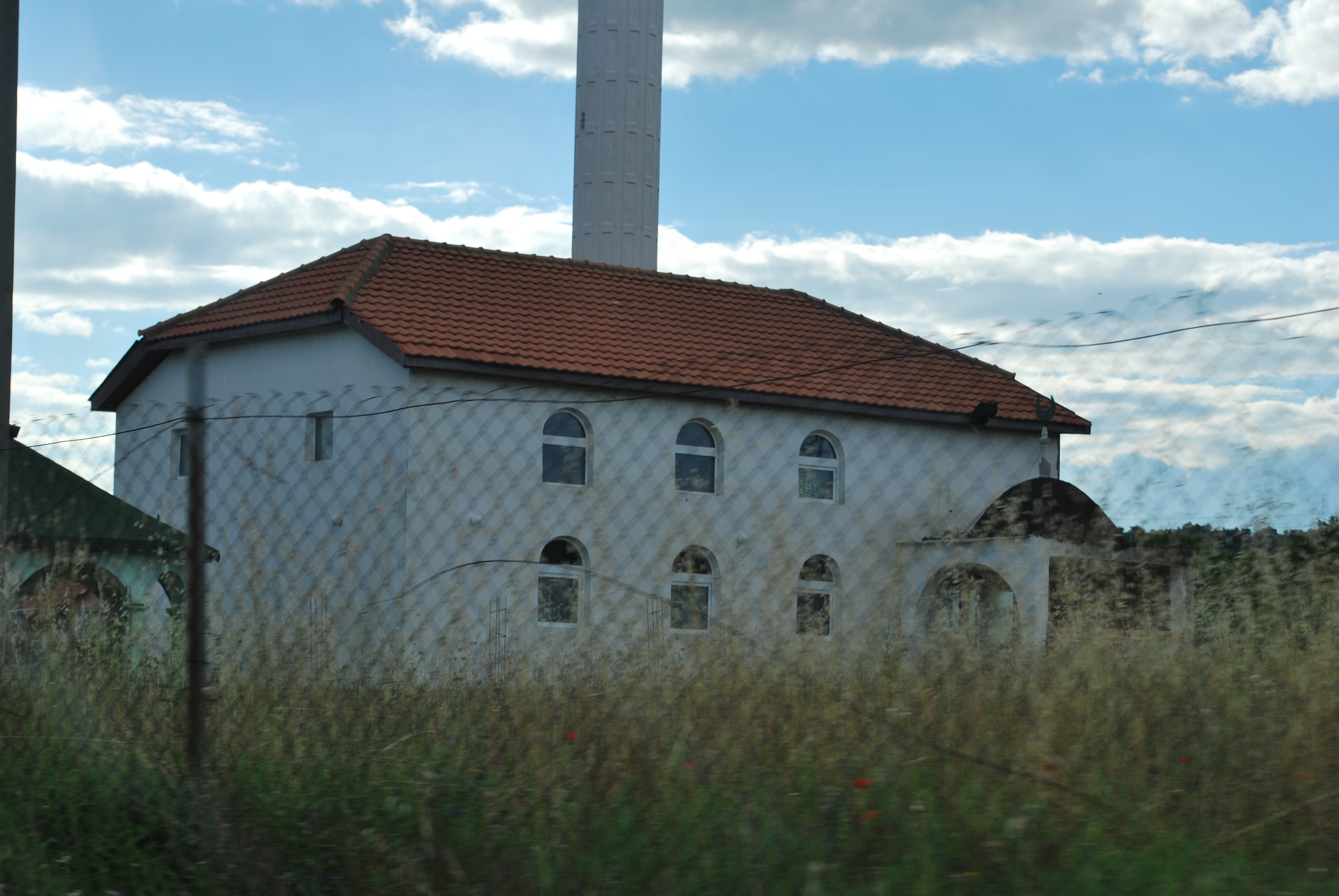 Mosque in Katlanovo, Macedonia